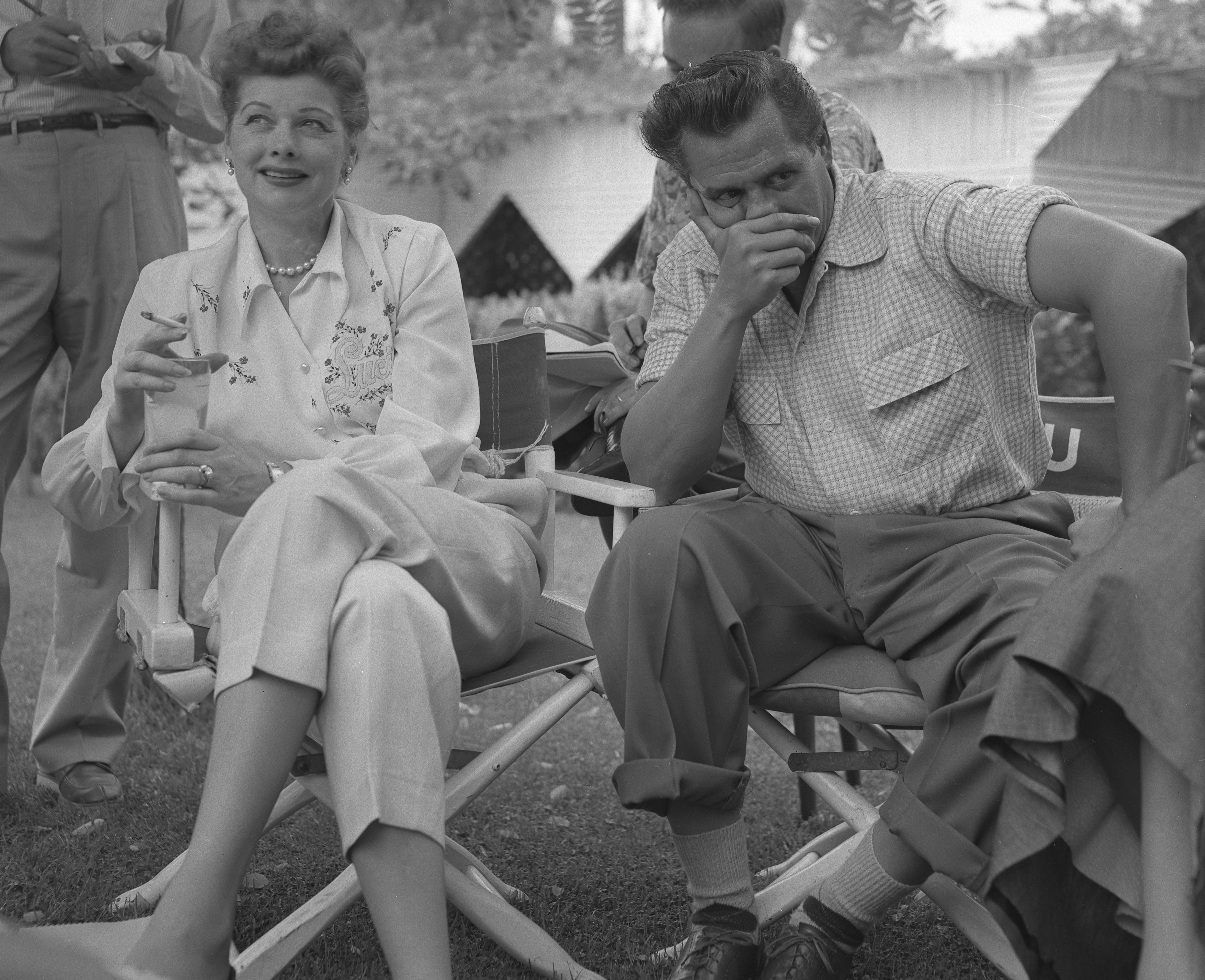 Actress Lucille Ball and husband, Desi Arnaz seated in directors chairs at press conference in Los Angeles, Calif., 1953